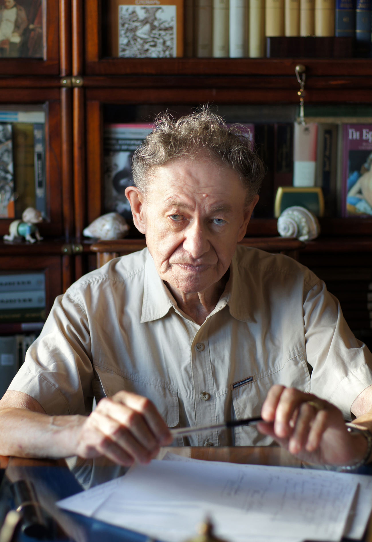 Alexandr Khazanov